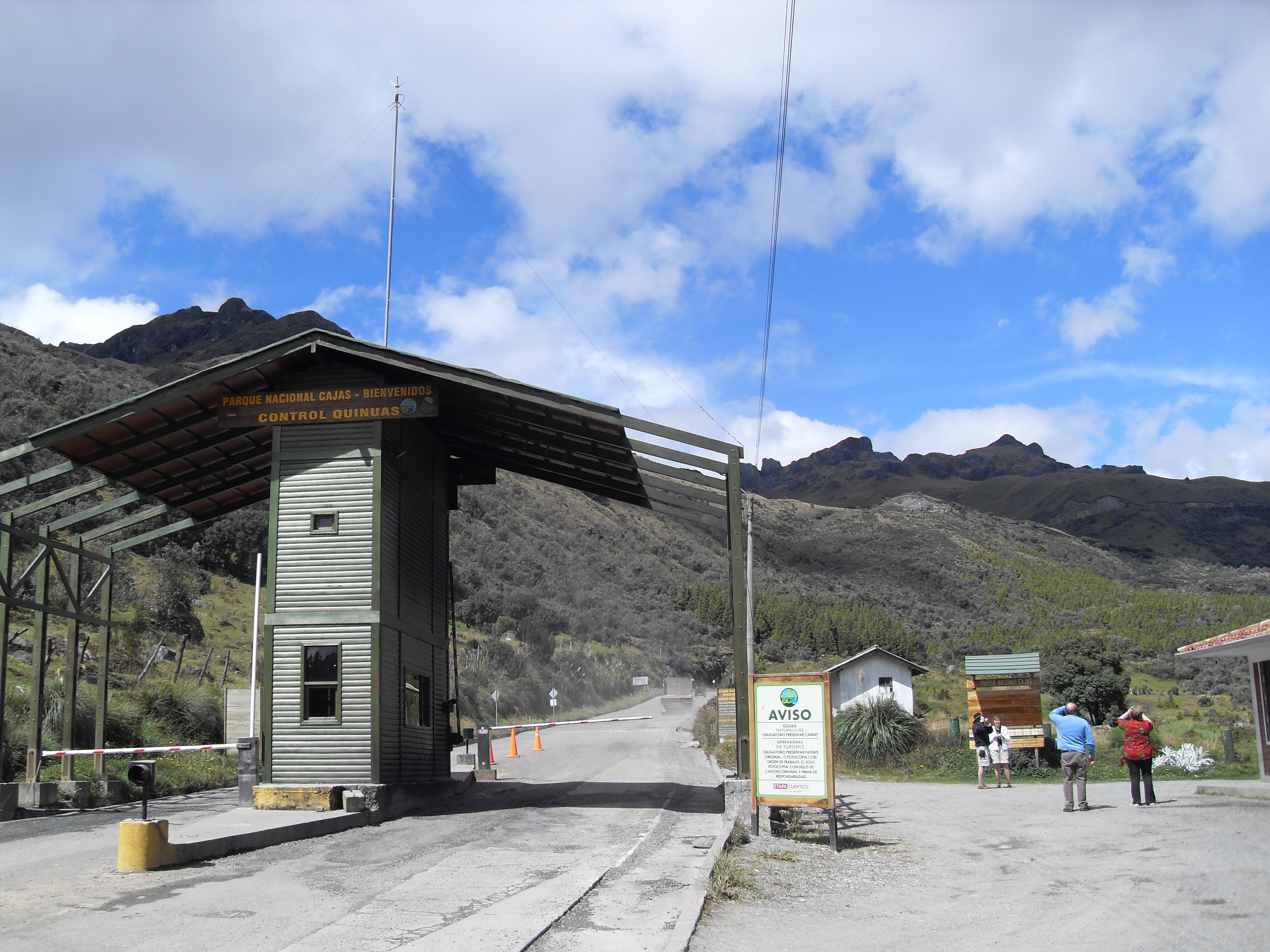 Eastern Entry to Cajas National Park